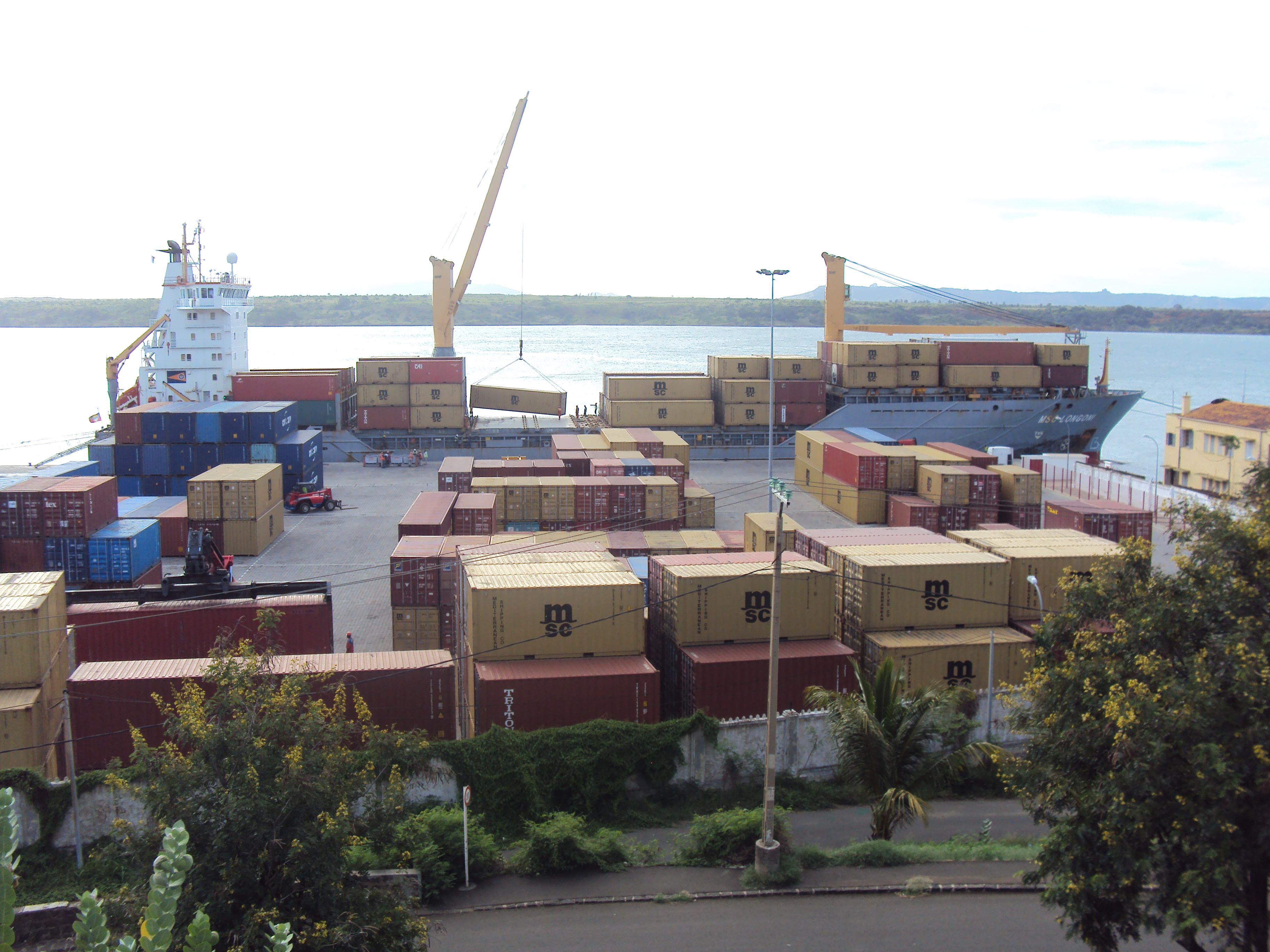 MSC Longoni anchored in the port of Antsiranana.